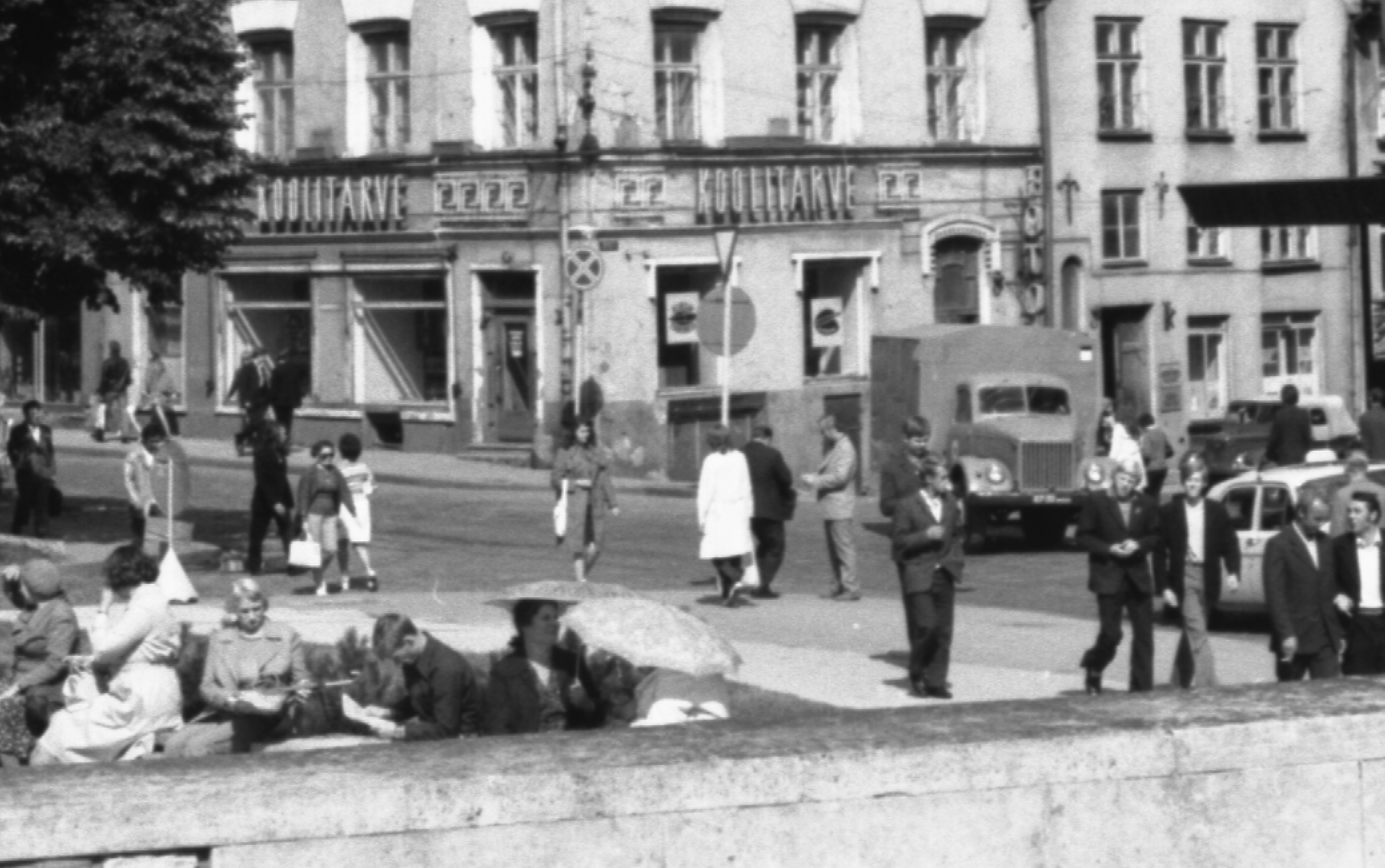 Tallinn. Author's notes Film found in junk. Request for place correction